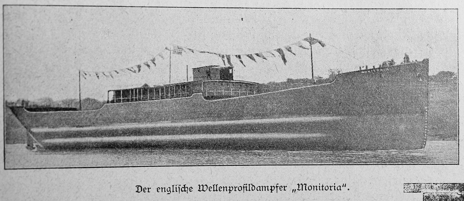 The corrugated steam-ship Monitoria